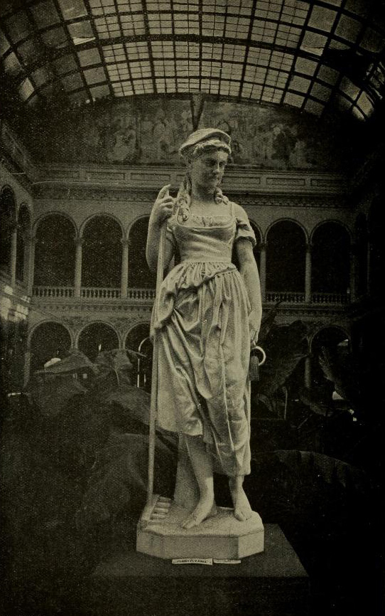 Maude Muller (marble, circa 1876) by Blanche Nevin, Iris Club, Lancaster, Pennsylvania.